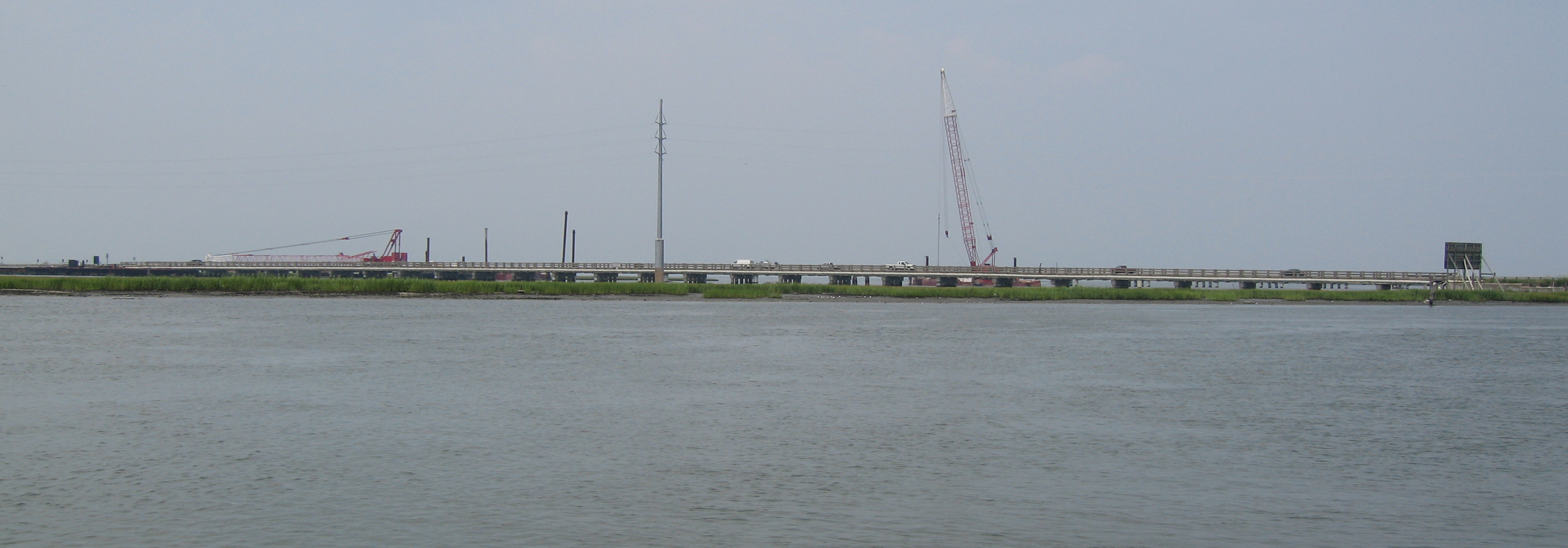 John B. Whealton Memorial Causeway in Accomack County, Virginia. Photograph taken in July 2008 on the docks at Sunset Bay Villas, 6321 Captain’s Lane, Chincoteague, Virginia. The camera faced north for picture.